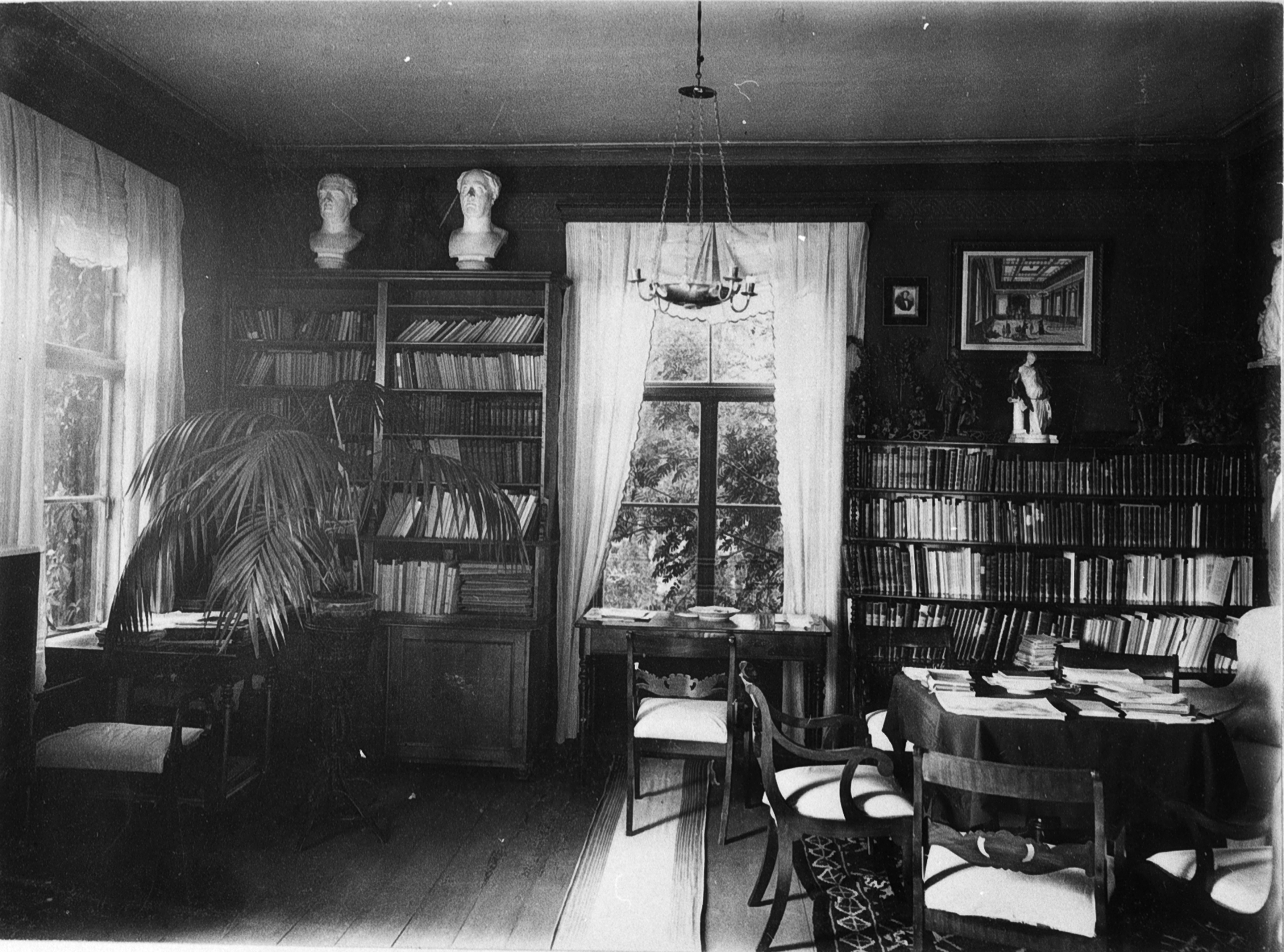 Biblioteket på Björkudden, 1879. slsa801_130 Zacharias Topelius Skrifter Svenska litteratursällskapet i Finland